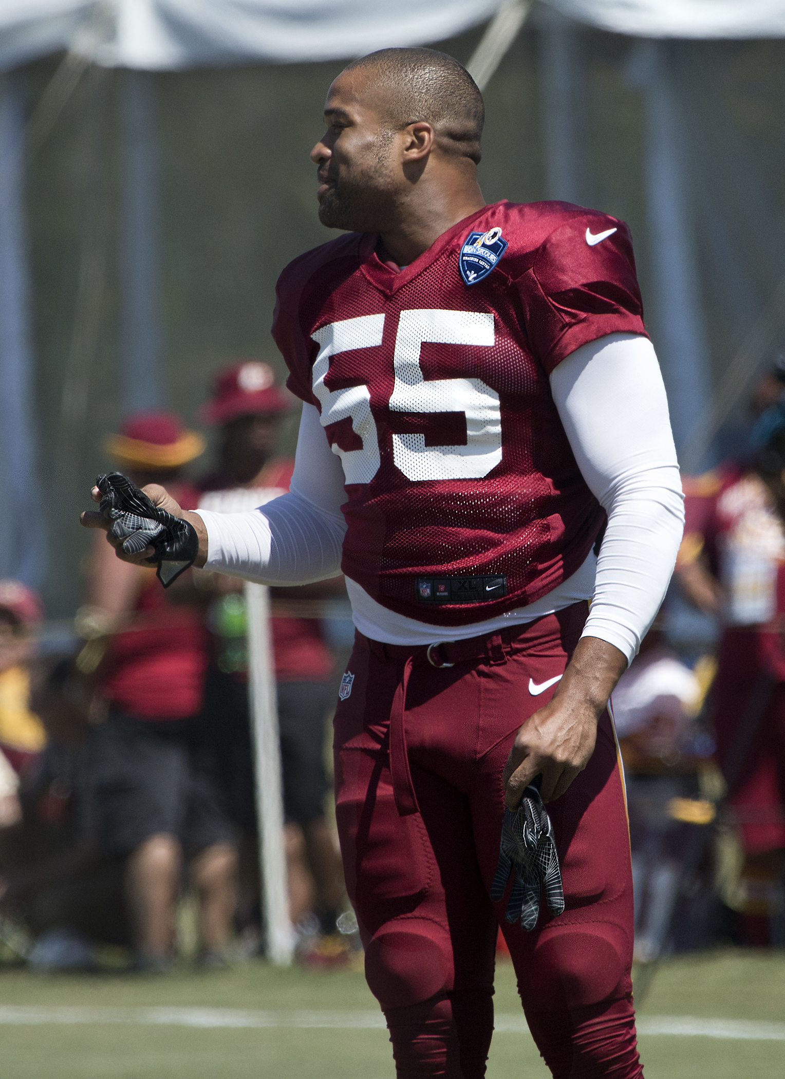 Washington Redskins linebacker, Chris Carter, at training camp on July 31, 2017.